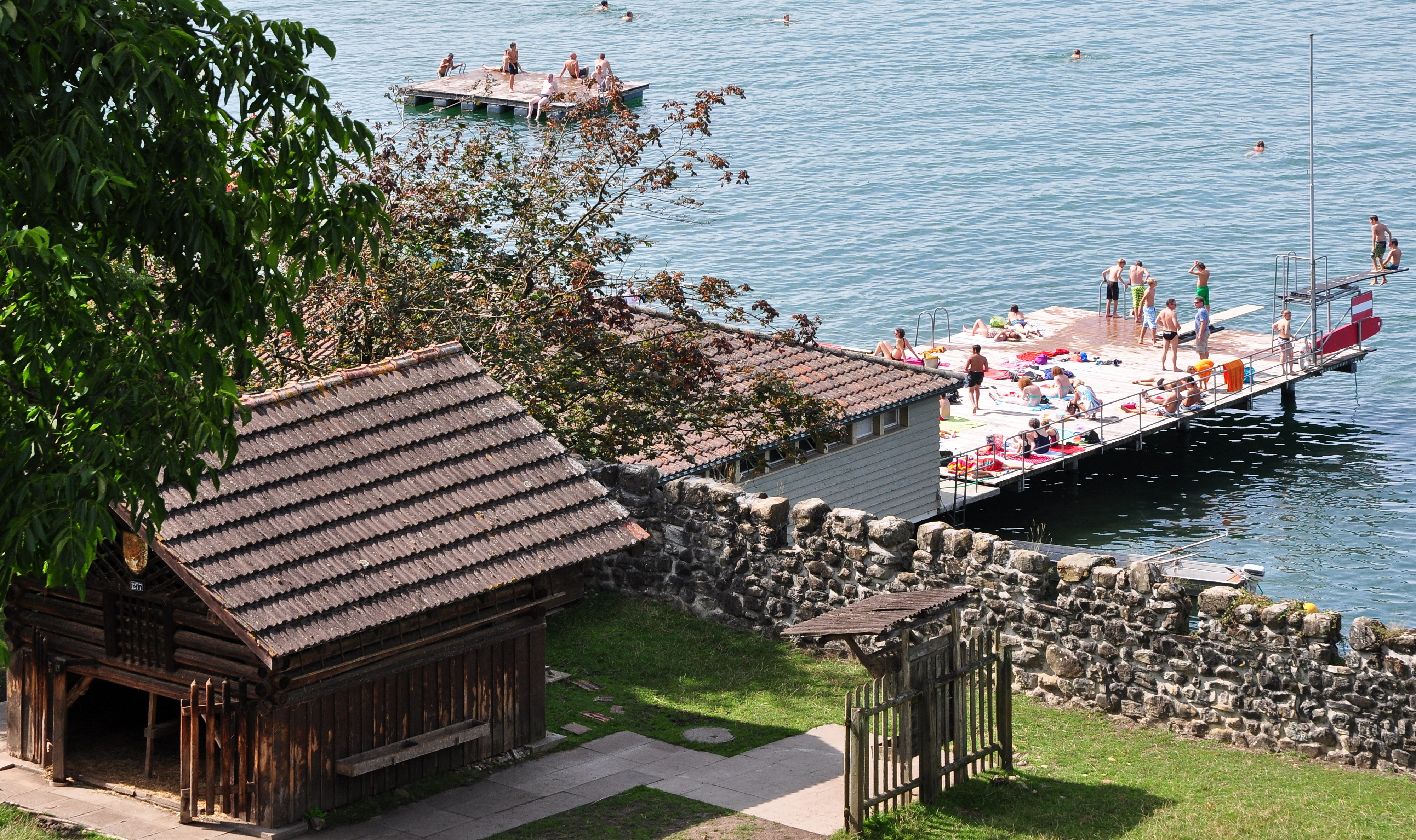 Seebad on Zürichsee in Rapperswil (Switzerland), as seen from Lindenhof nearby the castle, deer park in the foreground.